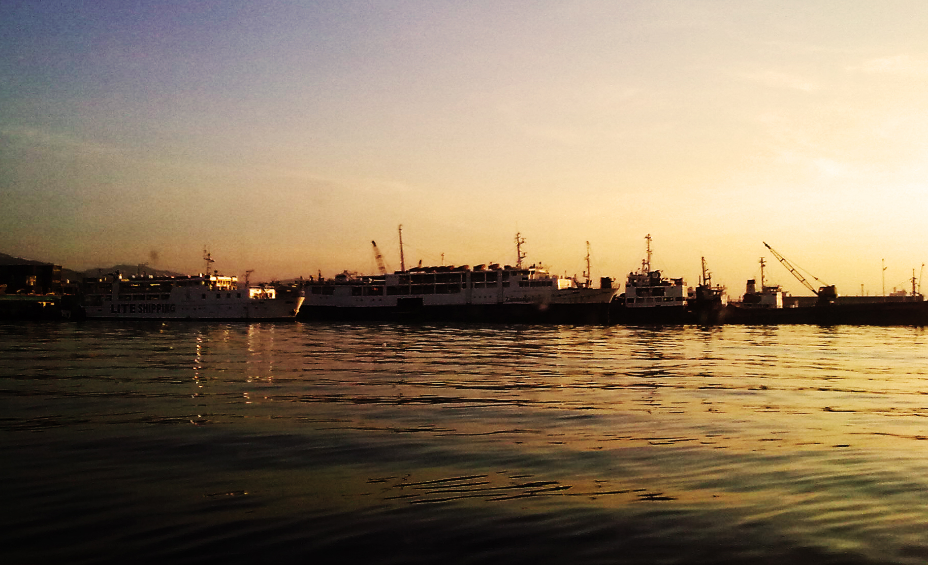 A picture of Port 1 of Cebu City